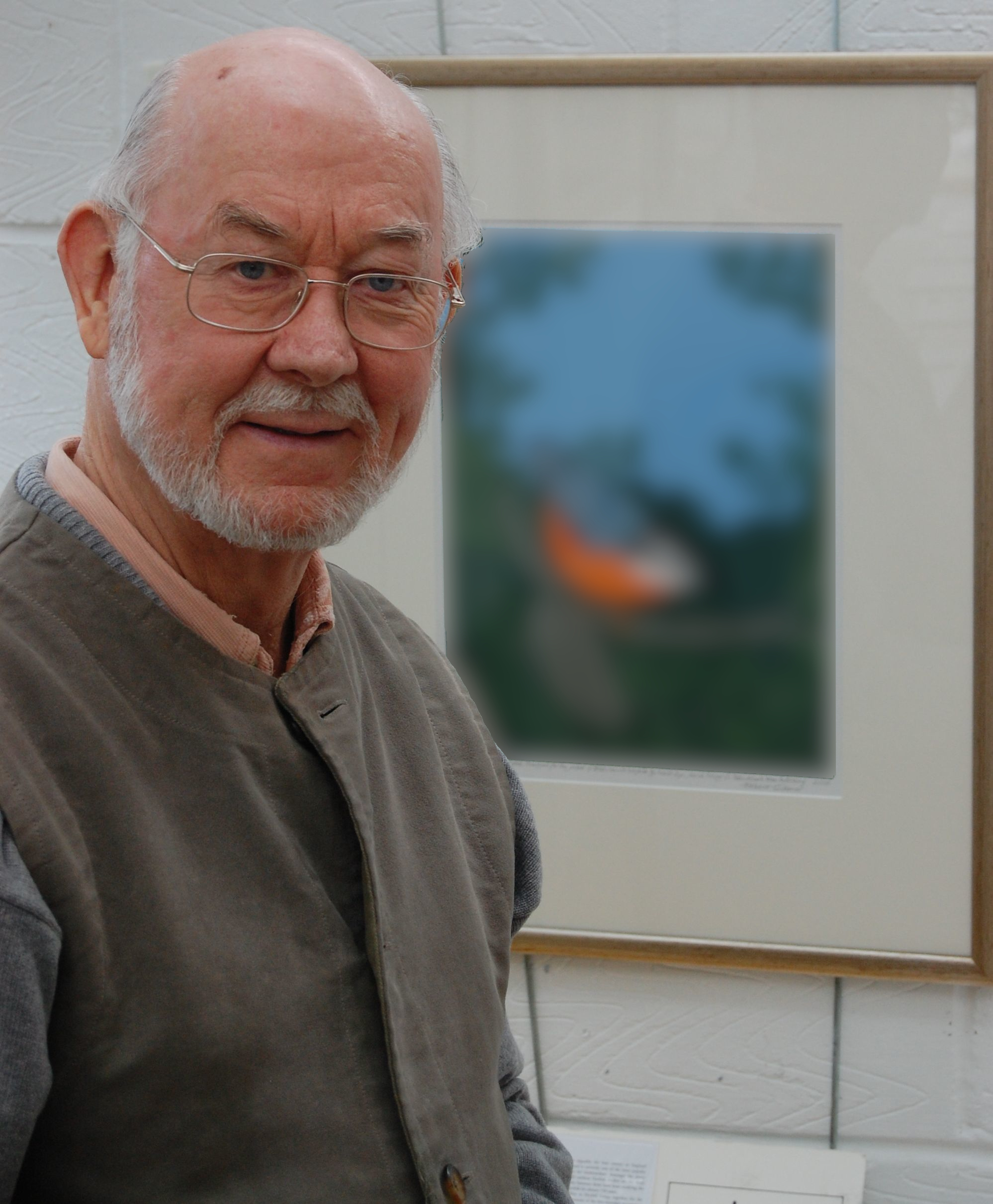 Ornithological artist Robert Gillmor, during a week as artist in residence at Nature in Art. Gillmor stands in front of a limited-edition lithograph of his cover art for Birds New to Norfolk (ISBN:978-0954254537), depicting a Red-breasted Nuthatch. Picture posed especially for use in Wikipedia. Taken with a Nikon D40.